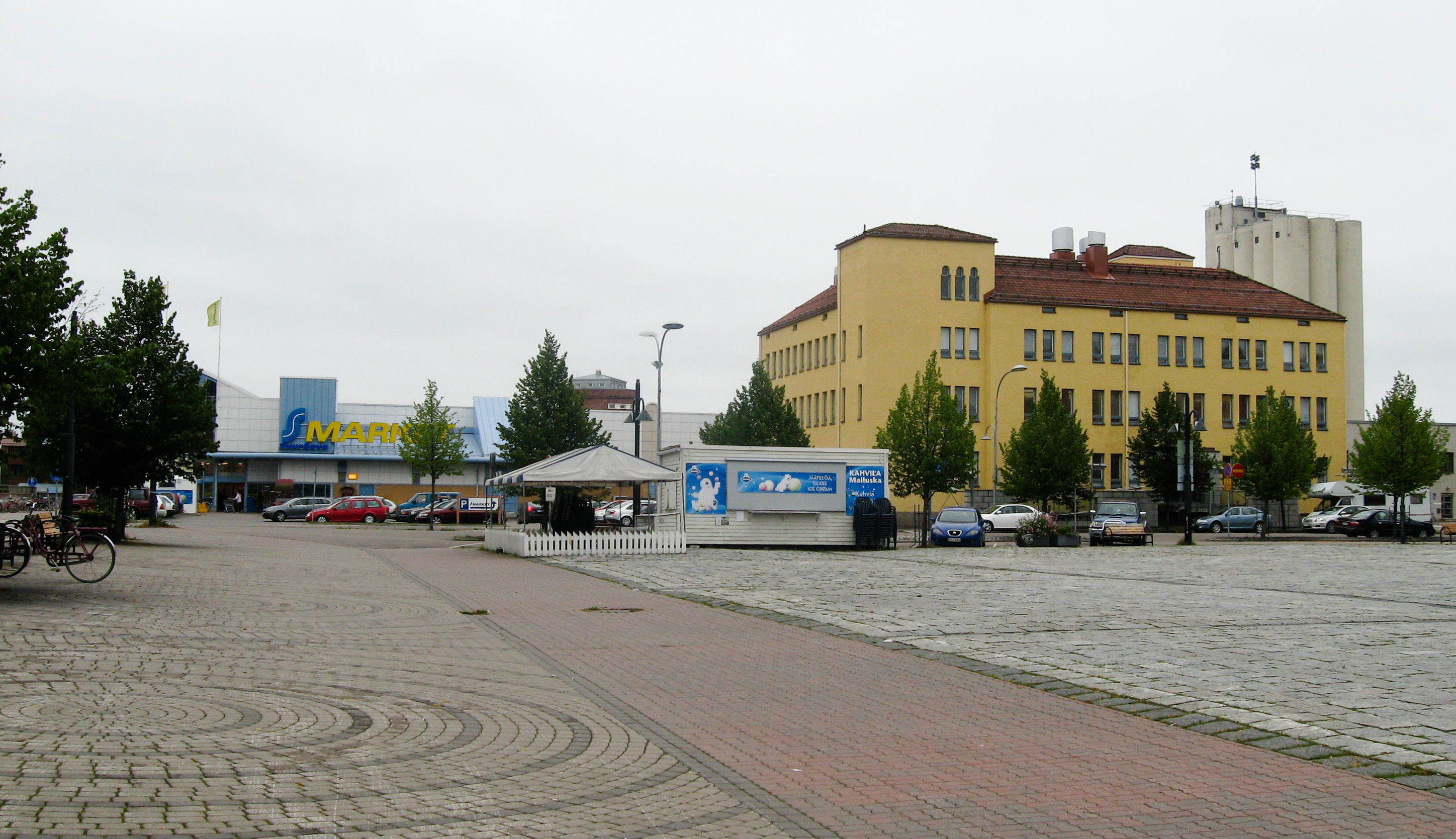 Market square, Pieksamaki, Finland